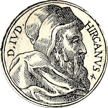 Hyrcanus Yohanan